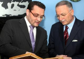 President of Islamic Cultural Center Abdul-Valhed Niyazov